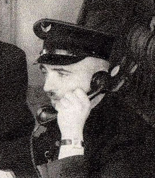 Franciszek Ząbecki (speaking on the phone) inside the building of Treblinka railway station. Crop from File:Franciszek Ząbecki stacja Treblinka.jpg